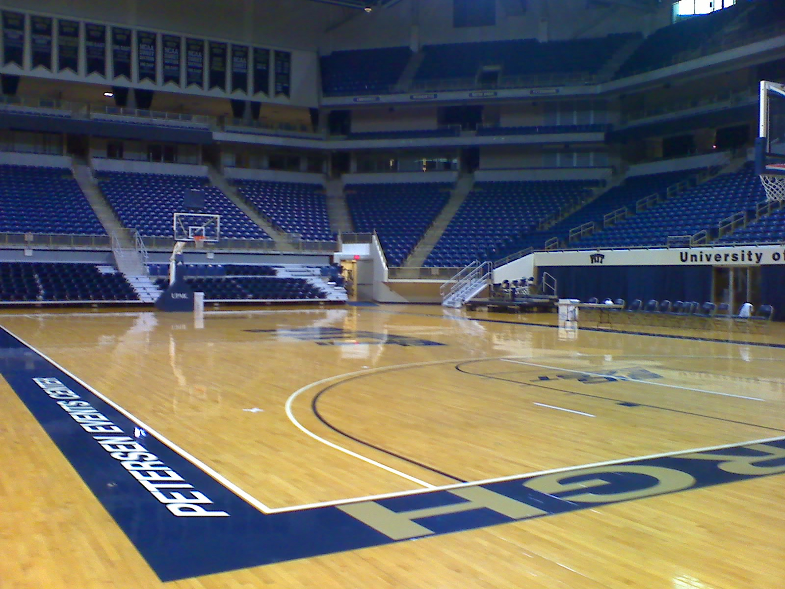 View of the basketball court and seating of the Petersen Events Center